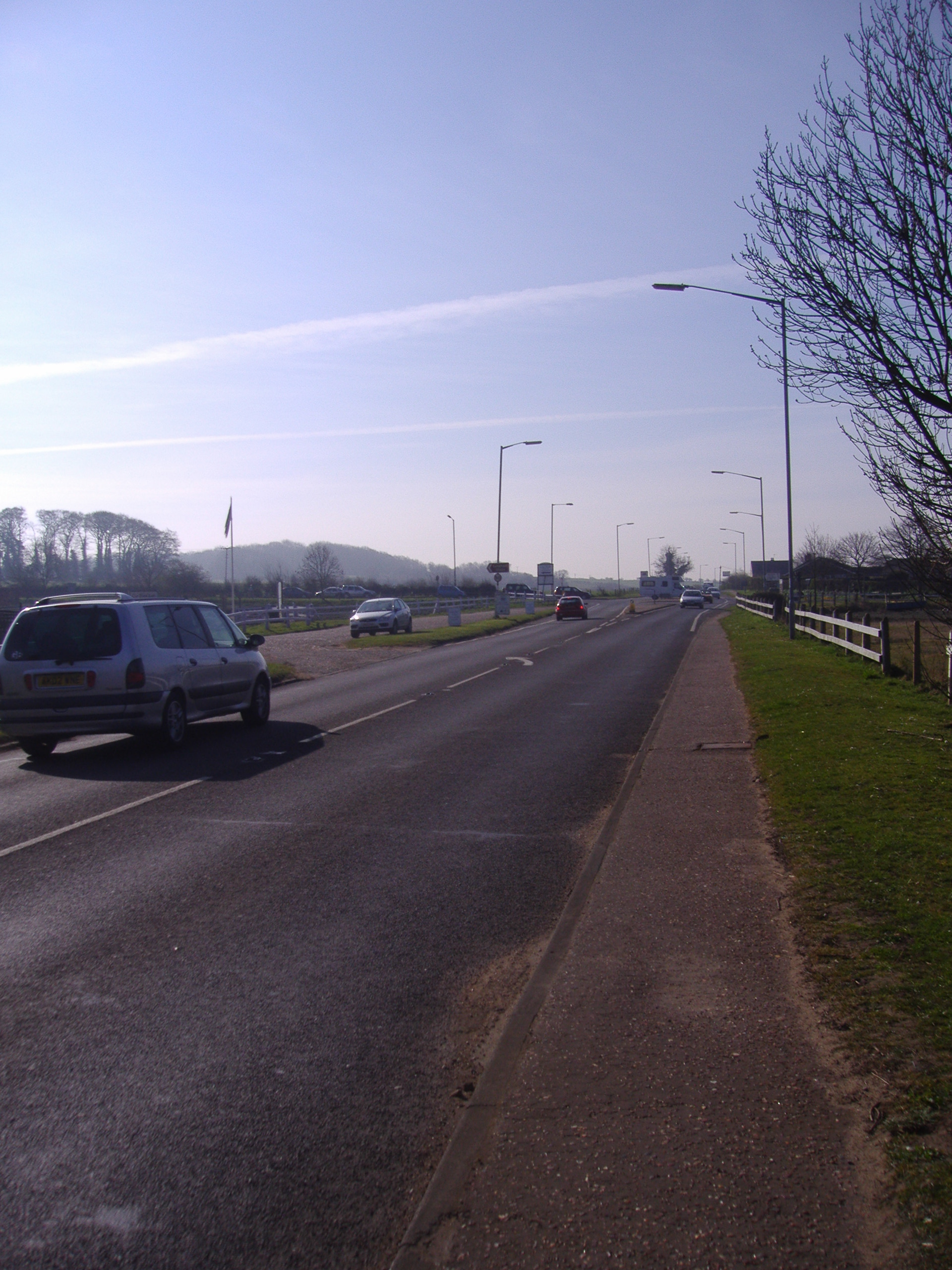 A Digital Photograph of the A149 at Heacham